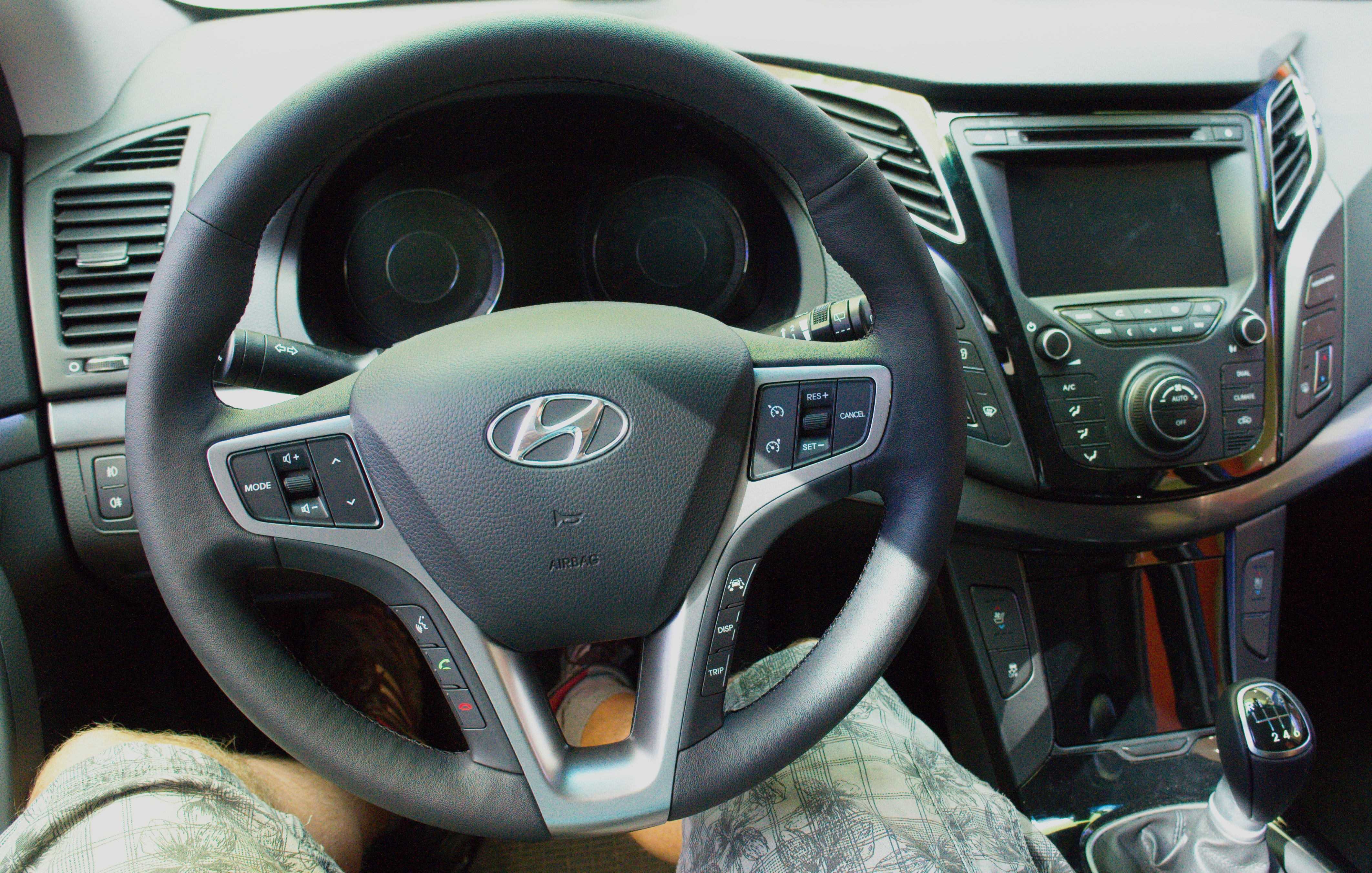 Hyundai i40 cockpit.